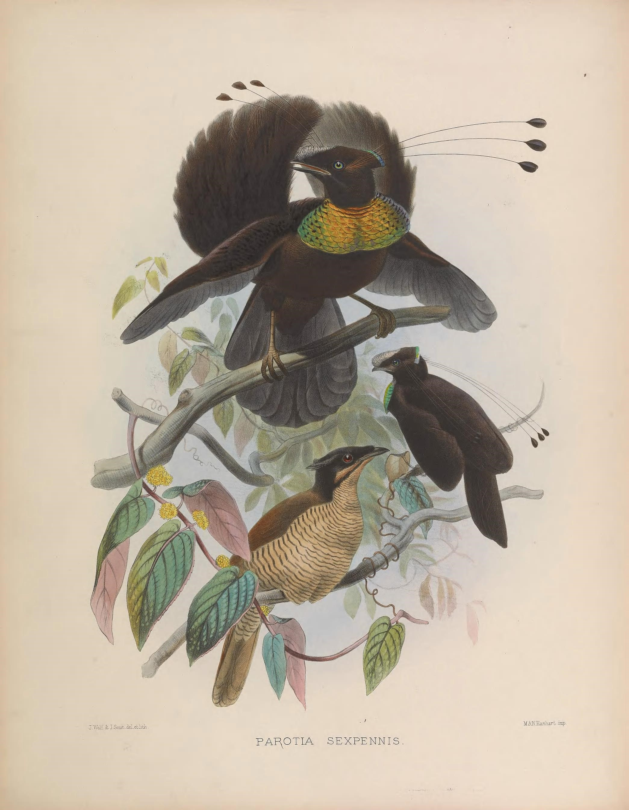 Drawing of 1873